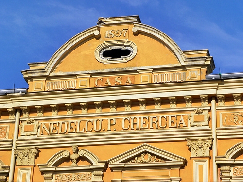 Nedelcu P. Chercea house